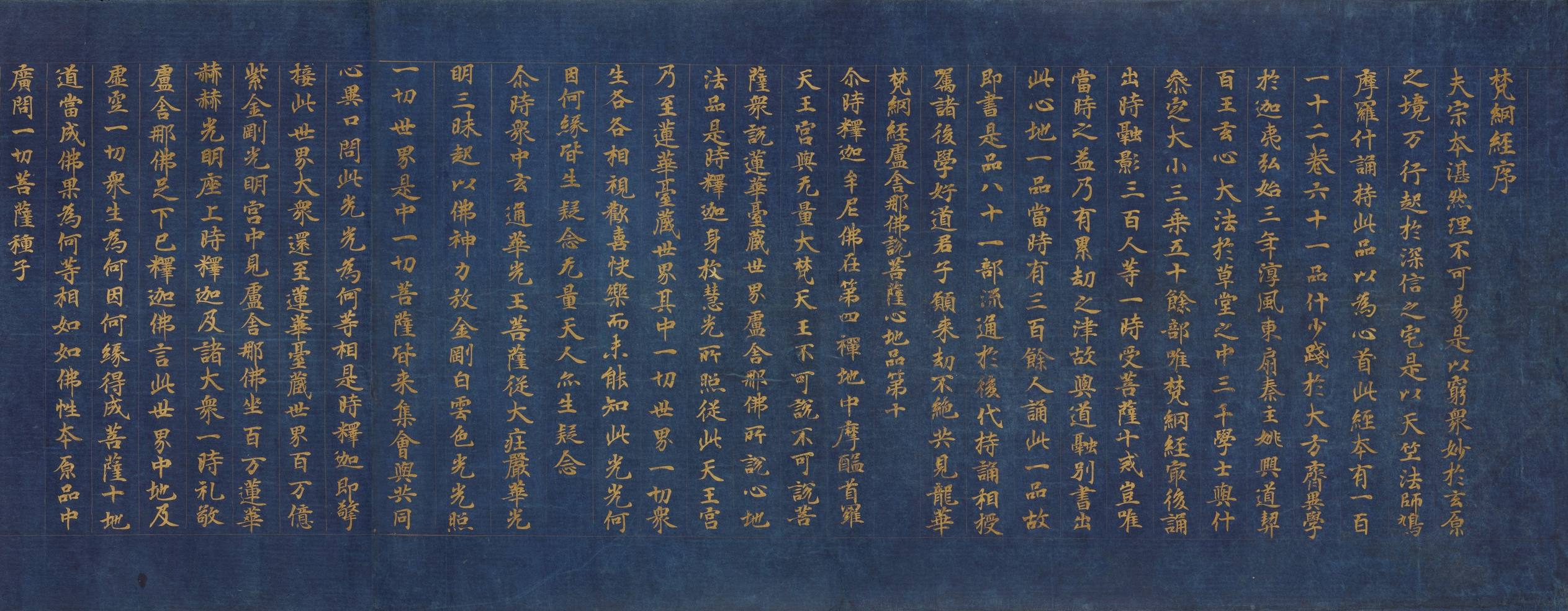 Bommō-kyō, Horyuji Treasures N-13, Tokyo National Museum, Japan